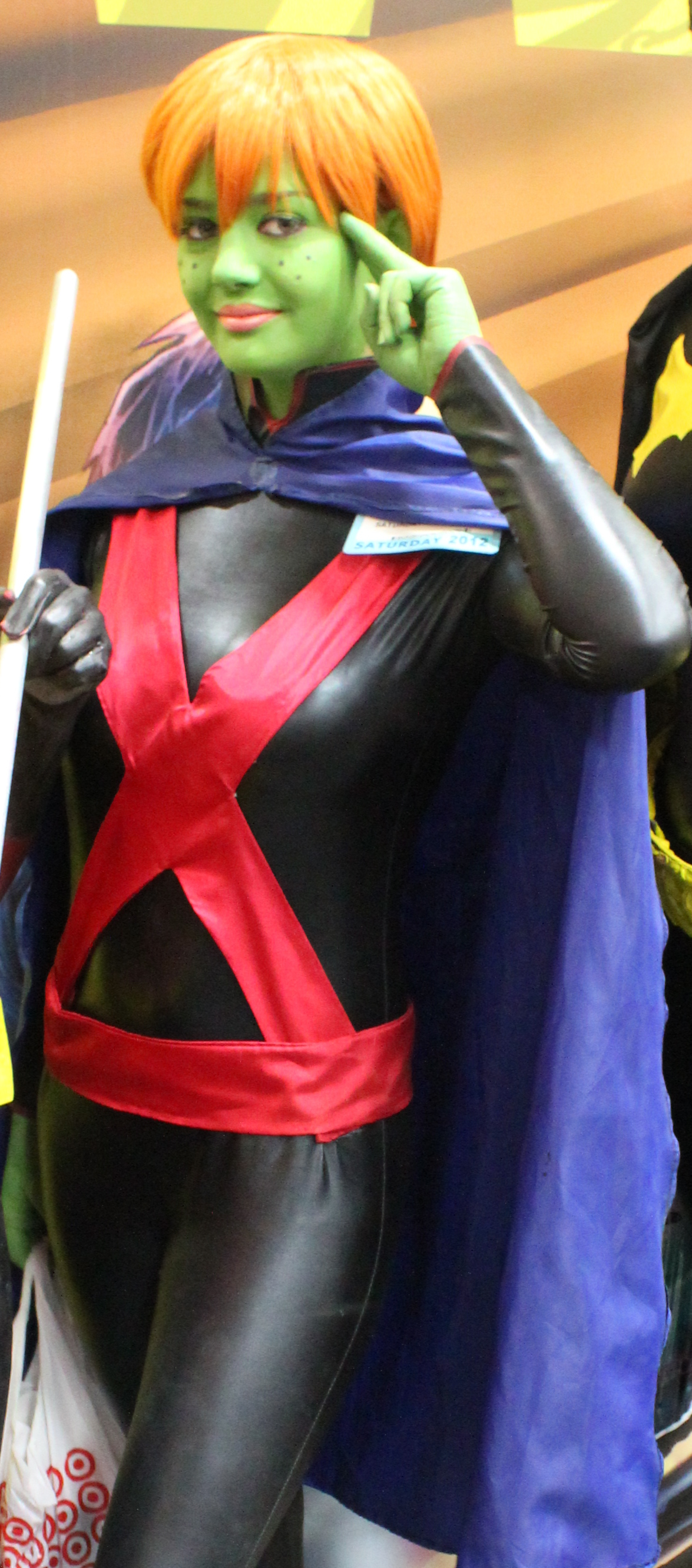 Cosplay at San Diego Comic-Con (SDCC 2012).